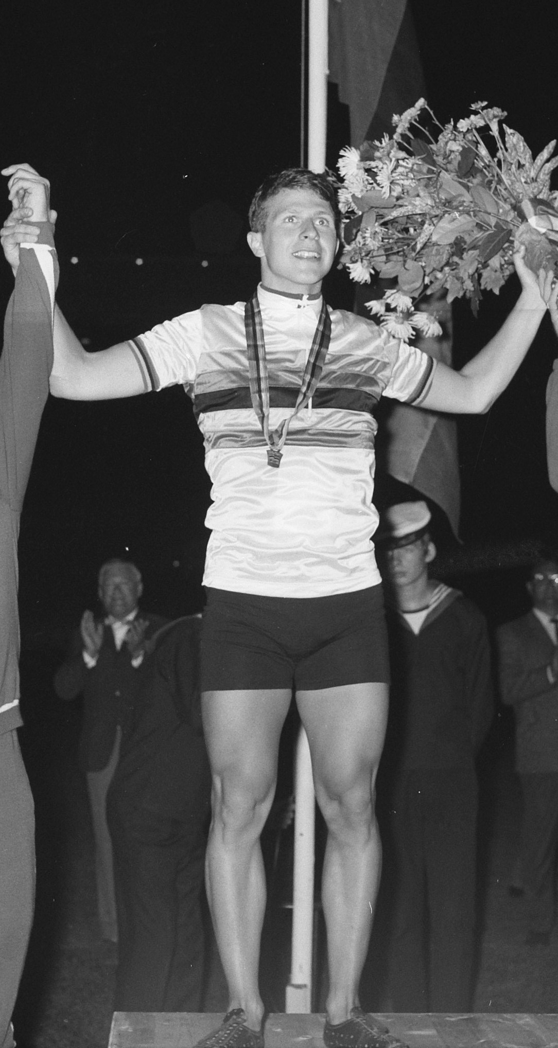 WK Wielrennen te Amsterdam. De Deen Friedborg op podium